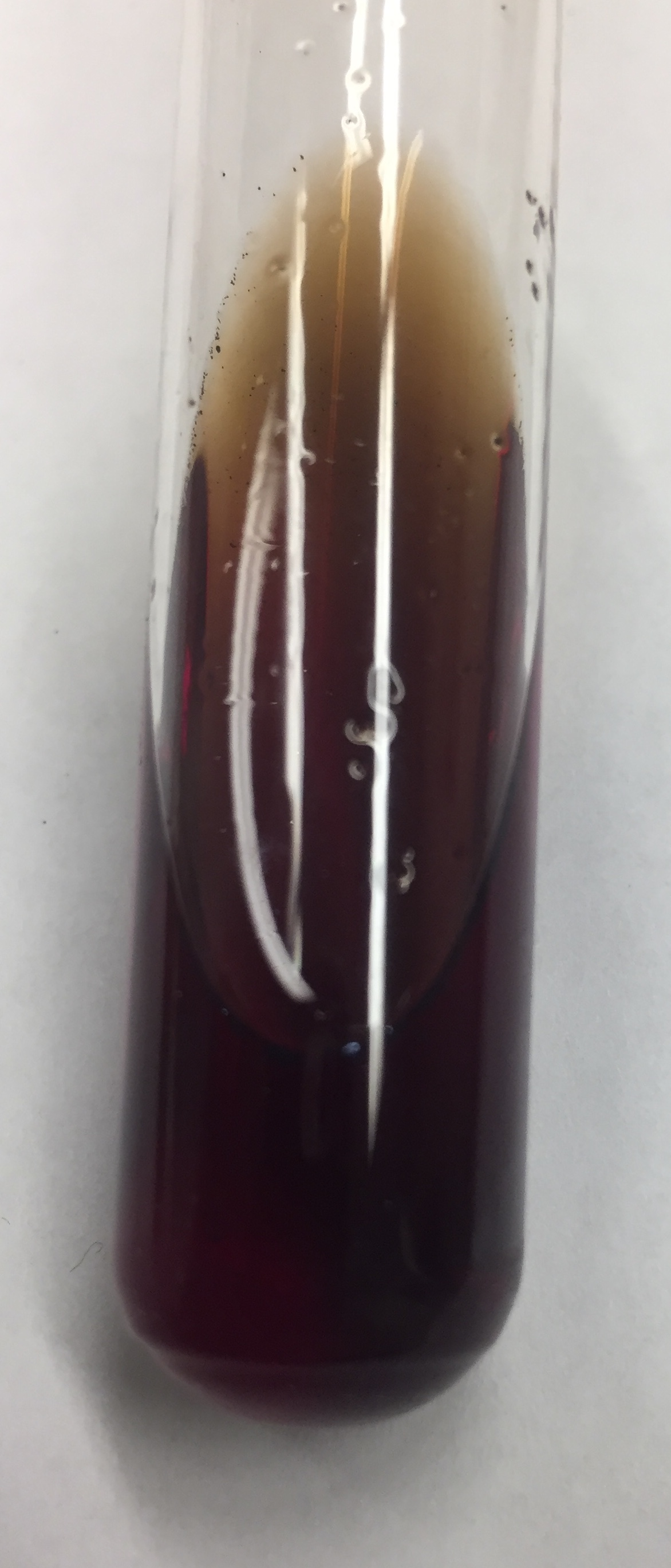 Saturated solution of H2OEP in DCM